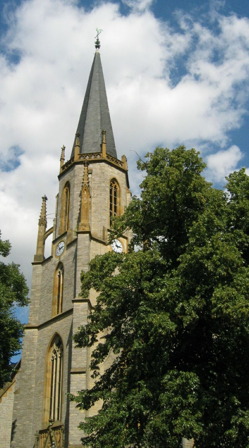 Martin-Luther-Kirche Gütersloh This is a photograph of an architectural monument. 031